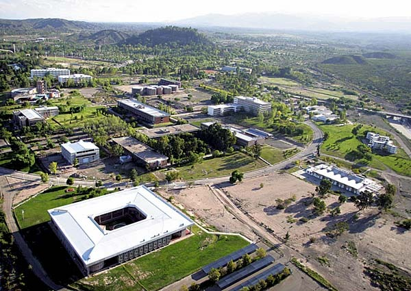 MENDOZA - 25/03/07 UNIVERSIDAD NACIONAL DE CUYO - UNCUYO - VISTAS AEREAS - PANORAMICAS - FOTOS RIOS